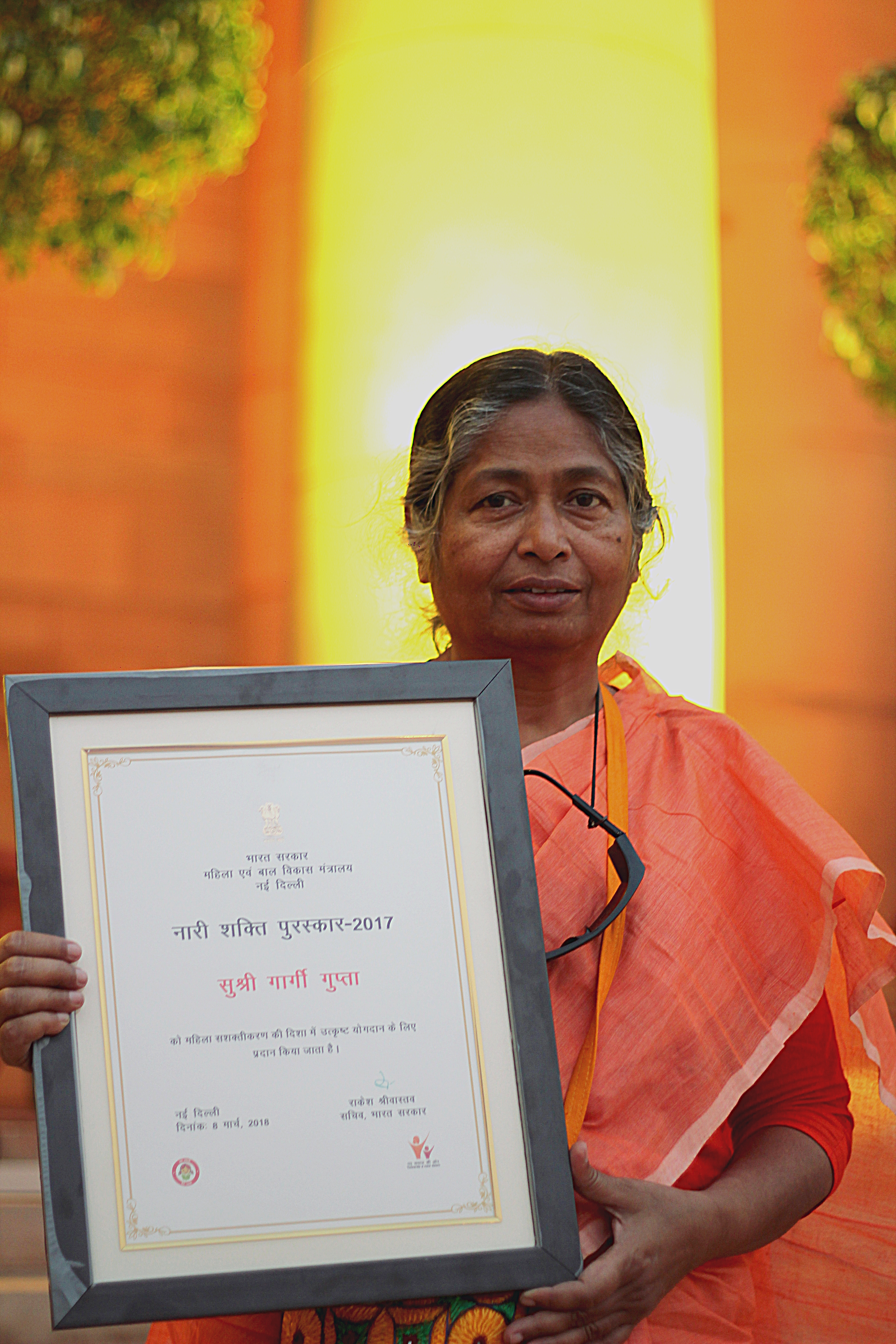 On occasion of International Women's Day at Rashtrapati Bhavan in New Delhi on March 08, 2018 Gargi Gupta awardee of Nari Shakti Puraskar 2017 after receiving award President Of India Ram Nath Kobind with her award certificate.